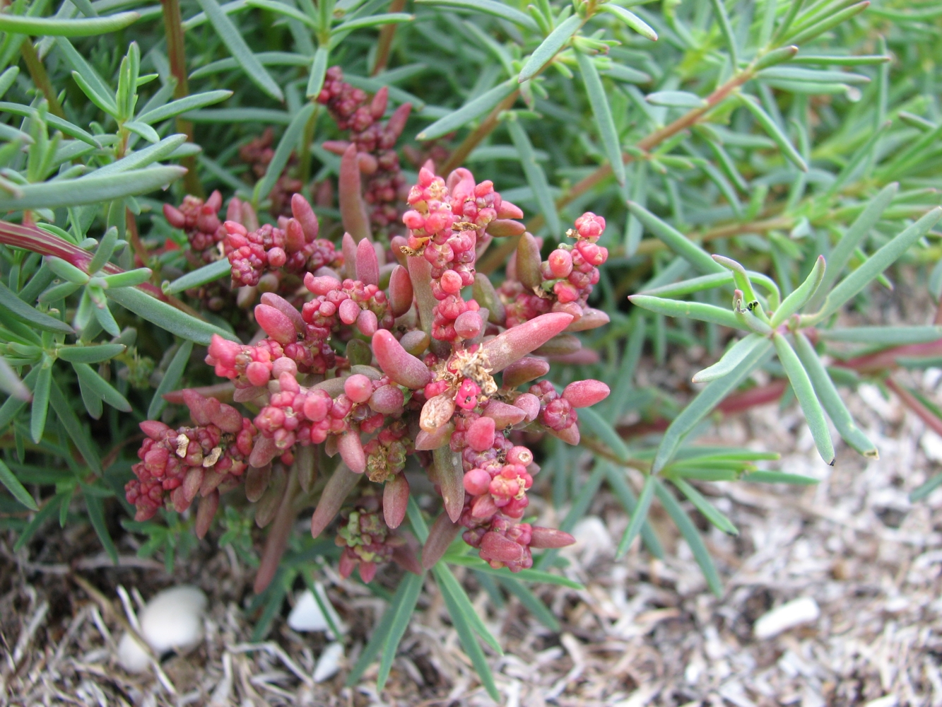 Suaeda australis, Altona Coastal Park, Victoria, Australia